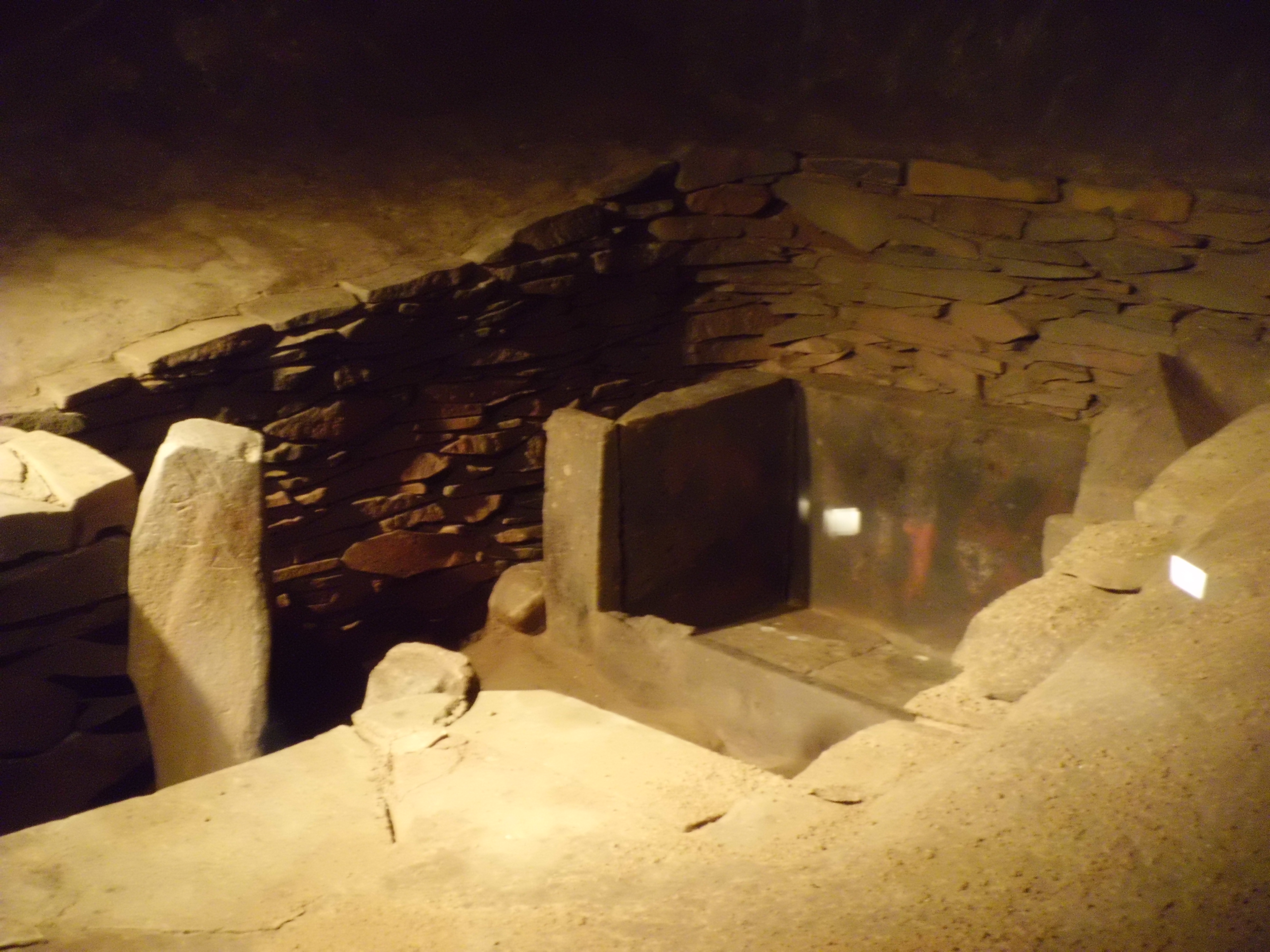 塚坊主古墳石室